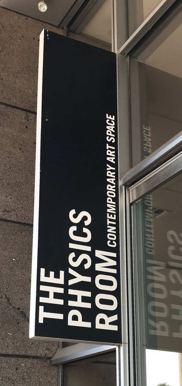 Sign for the Physics Room art space at its temporary home at Christchurch Art Gallery, New Zealand